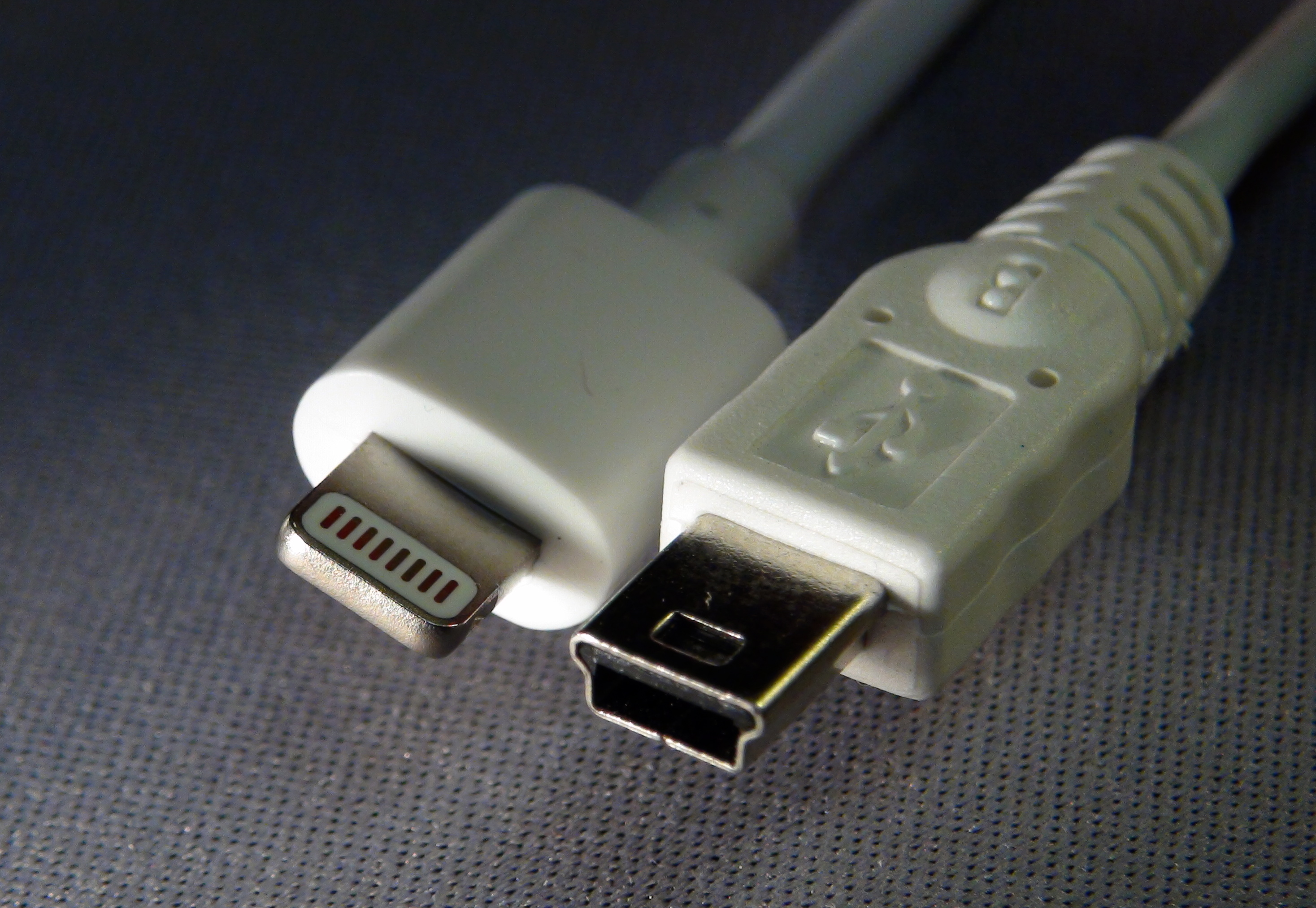 Closeup of Lightning and Mini-USB plugs against grey bgnd. Angled to show pins and hollow inside of USB.